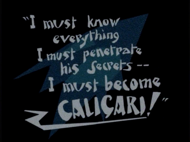 Screenshot from the film The Cabinet of Dr. Caligari; shortly before the end of the V. act. This film was originally released in 1920, and is now in the public domain in the United States.